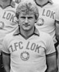 Title: Mannschaftsfoto 1. FC Lok Leipzig Factual corrections and alternative descriptions are encouraged separately from the original description. Additionally errors can be reported at this page to inform the Bundesarchiv. Original historic description: ... Uwe Zötzsche ...